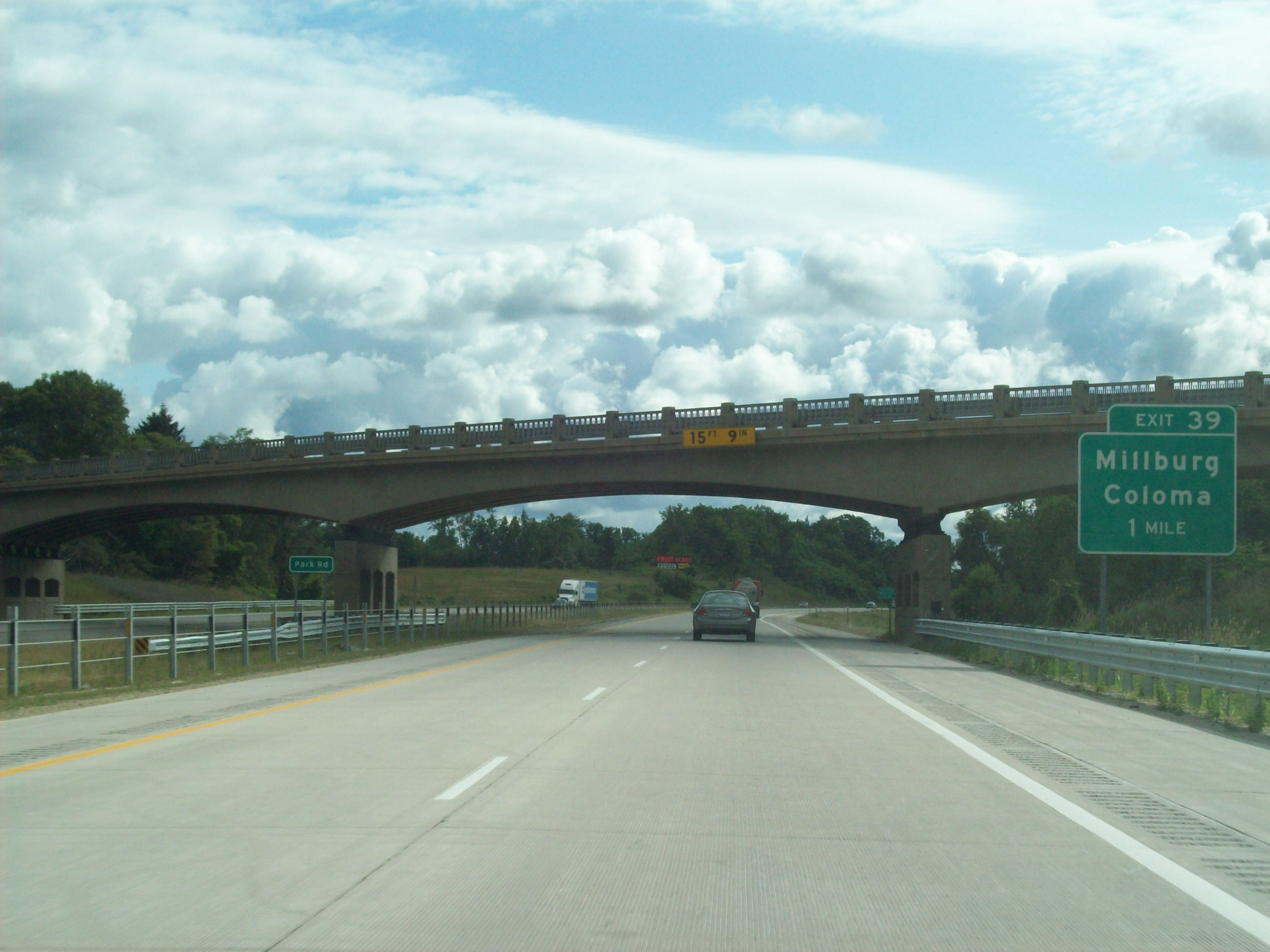 Interstate Signage and Pavement Construction; Interstate 94 at Park Road near Coloma, Michigan